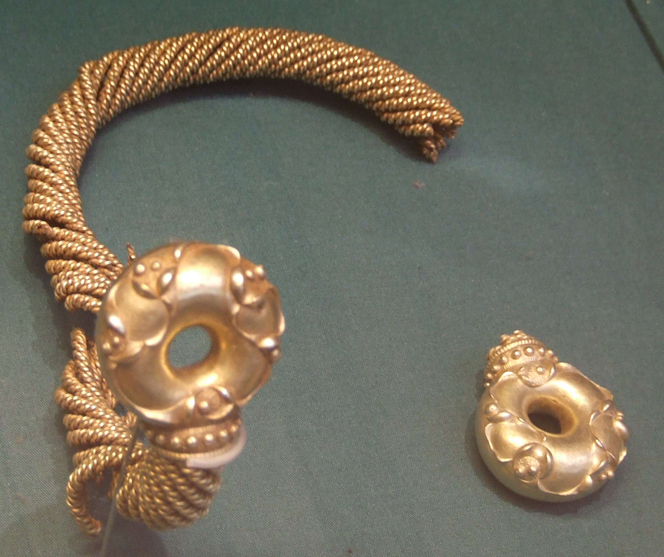 The Sedgeford gold torc (found 1965) and torc terminal (found 2005). Found at Sedgeford, Norfolk. Now in the British Museum.